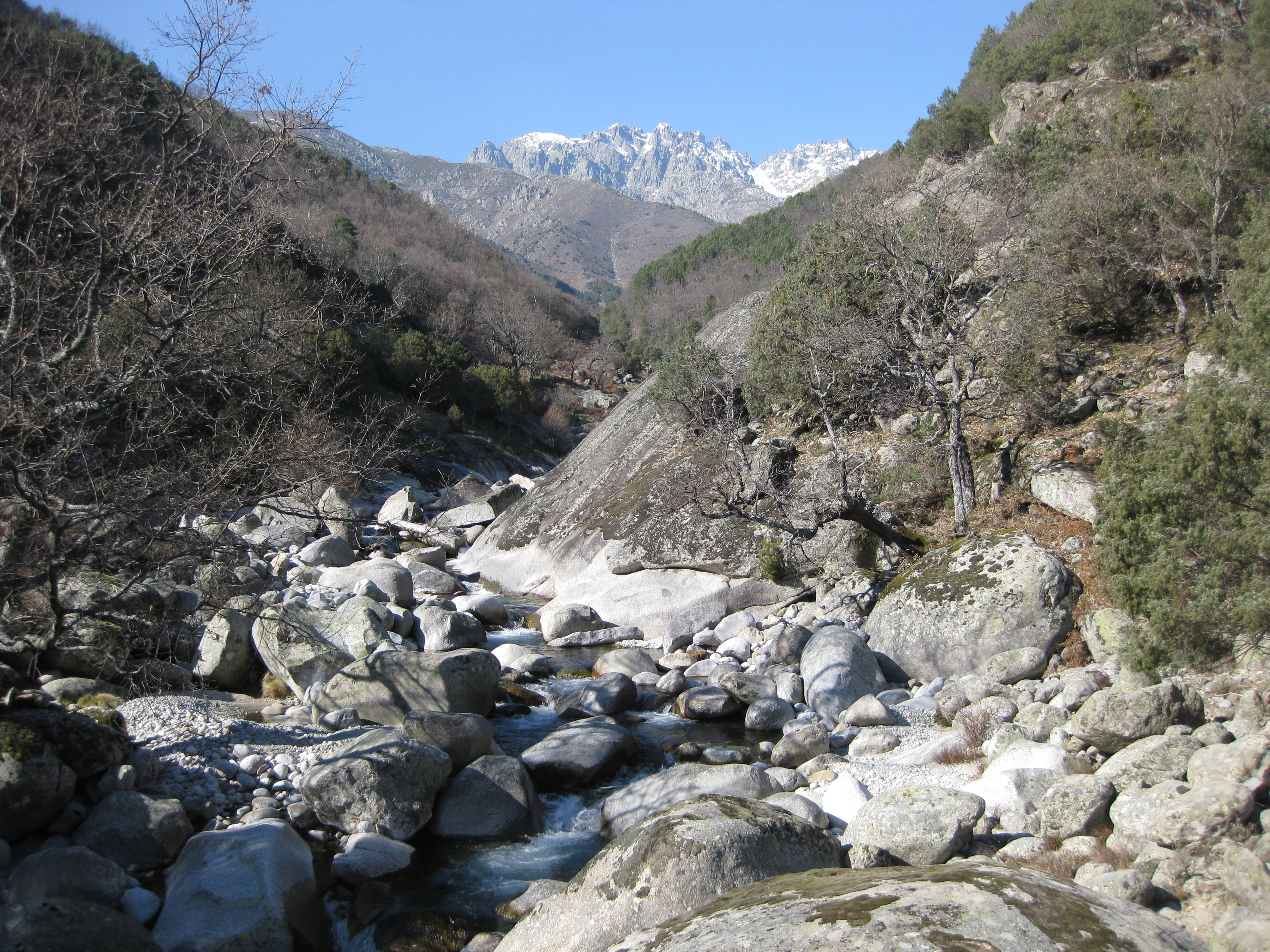 South-Face of Almanzor-Massif, with "Garganta Blanca" in the centre